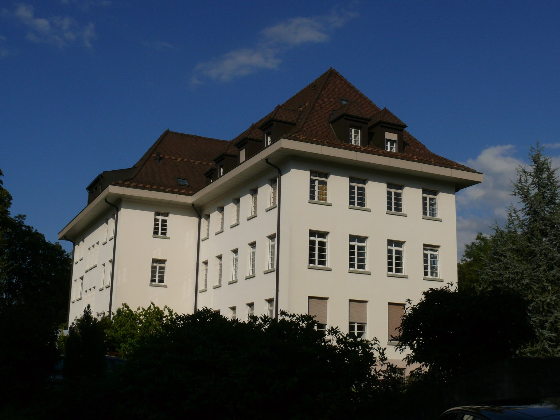 The Philanthropos institute in Fribourg (Switzerland).